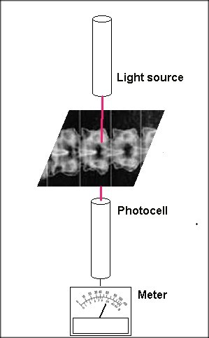 Principle of spot light densitometry, using a spine radiography. Illustration by Renato M.E. Sabbatini.